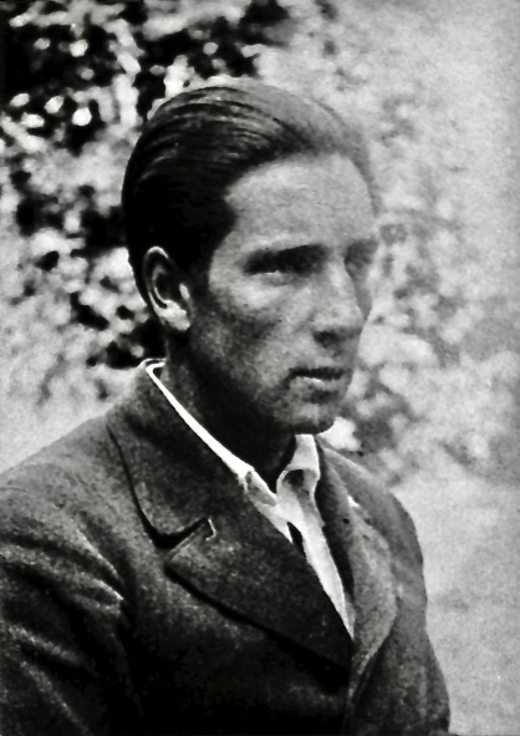 Ulrich 'Uli' Sild (1911–1937), Austrian mountaineer and alpinist, respectively.